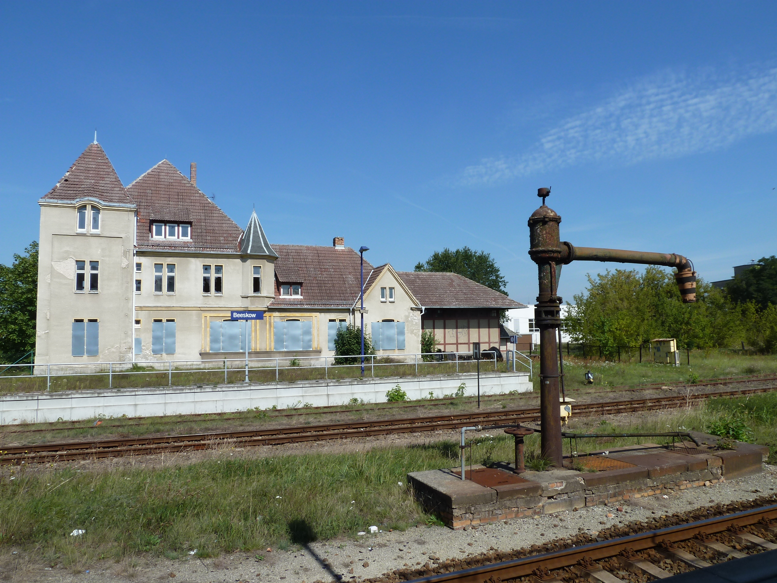 Beeskow train station, station building of the Fürstenwalde-Beeskow-Kreisbahn